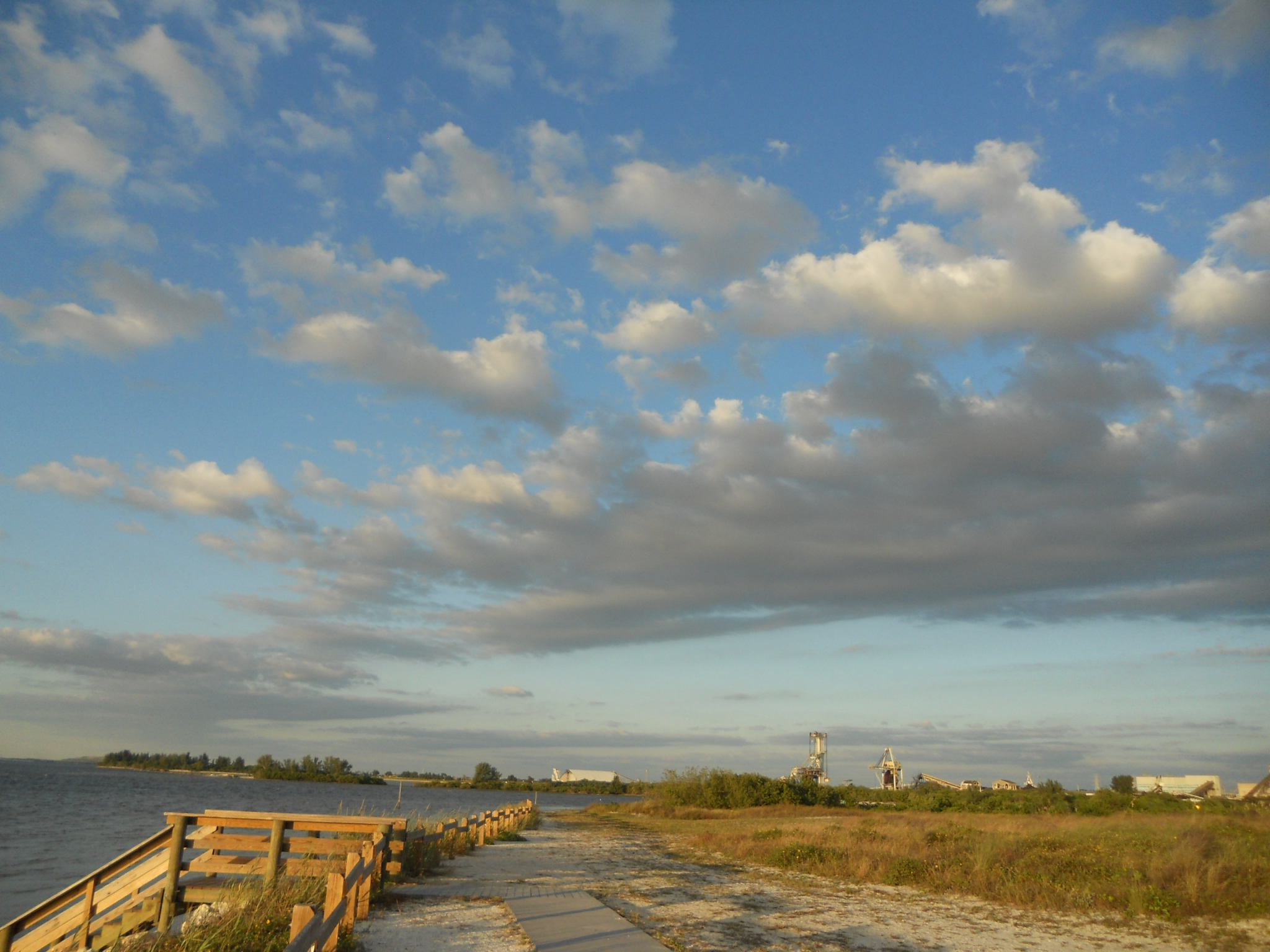 Appollo Beach